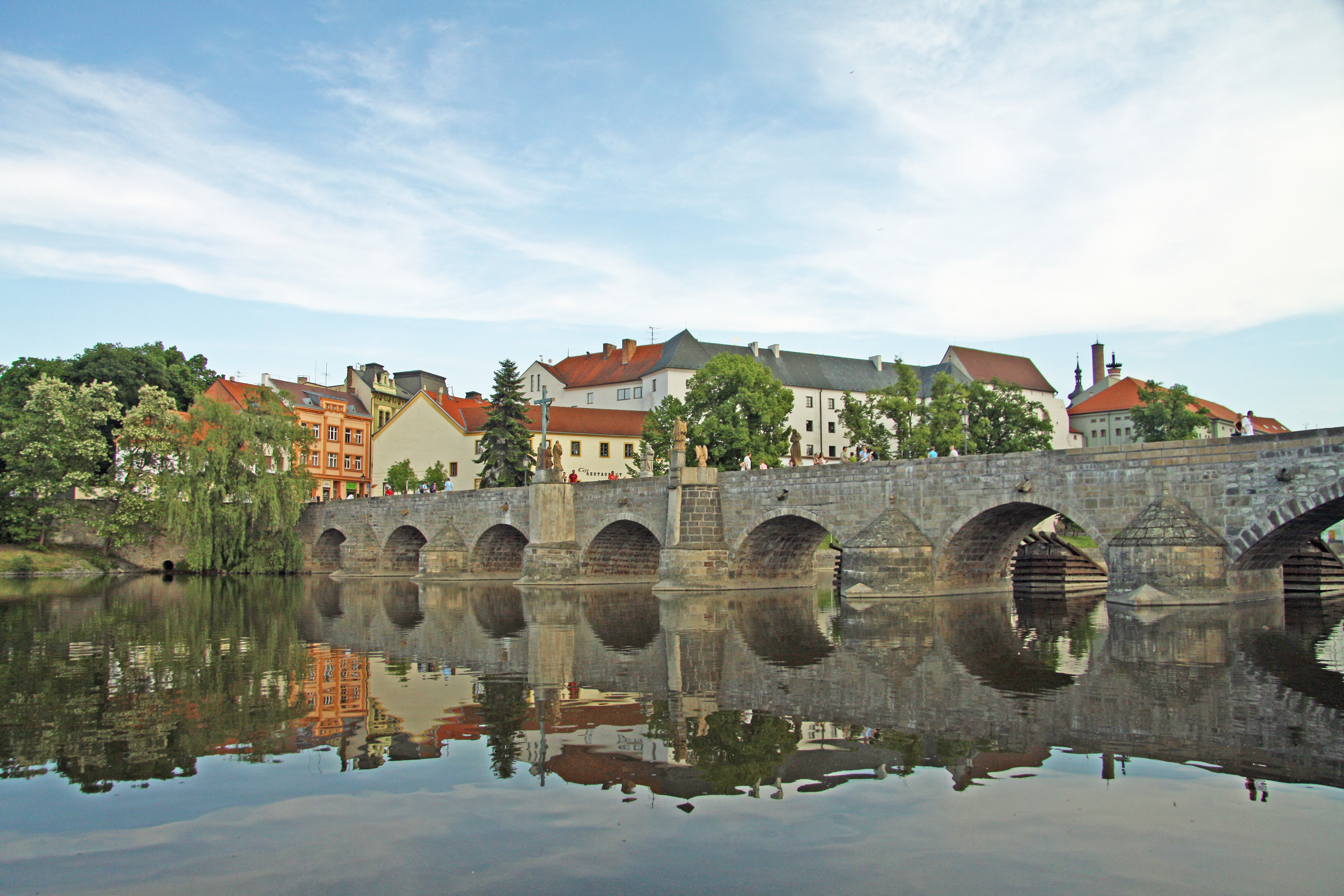 Písek Stone Bridge from Portyč side, Písek District, Czech Republic